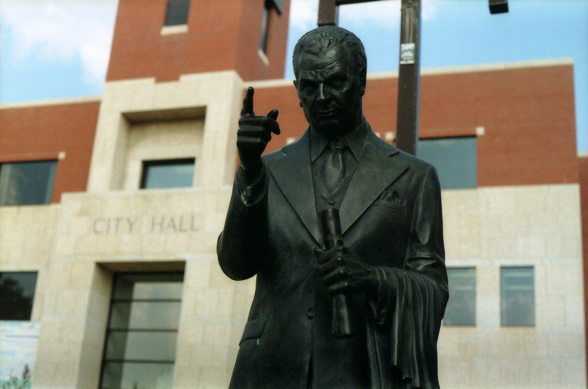 John Diefenbaker Statue, Prince Albert, Saskatchewan, Canada